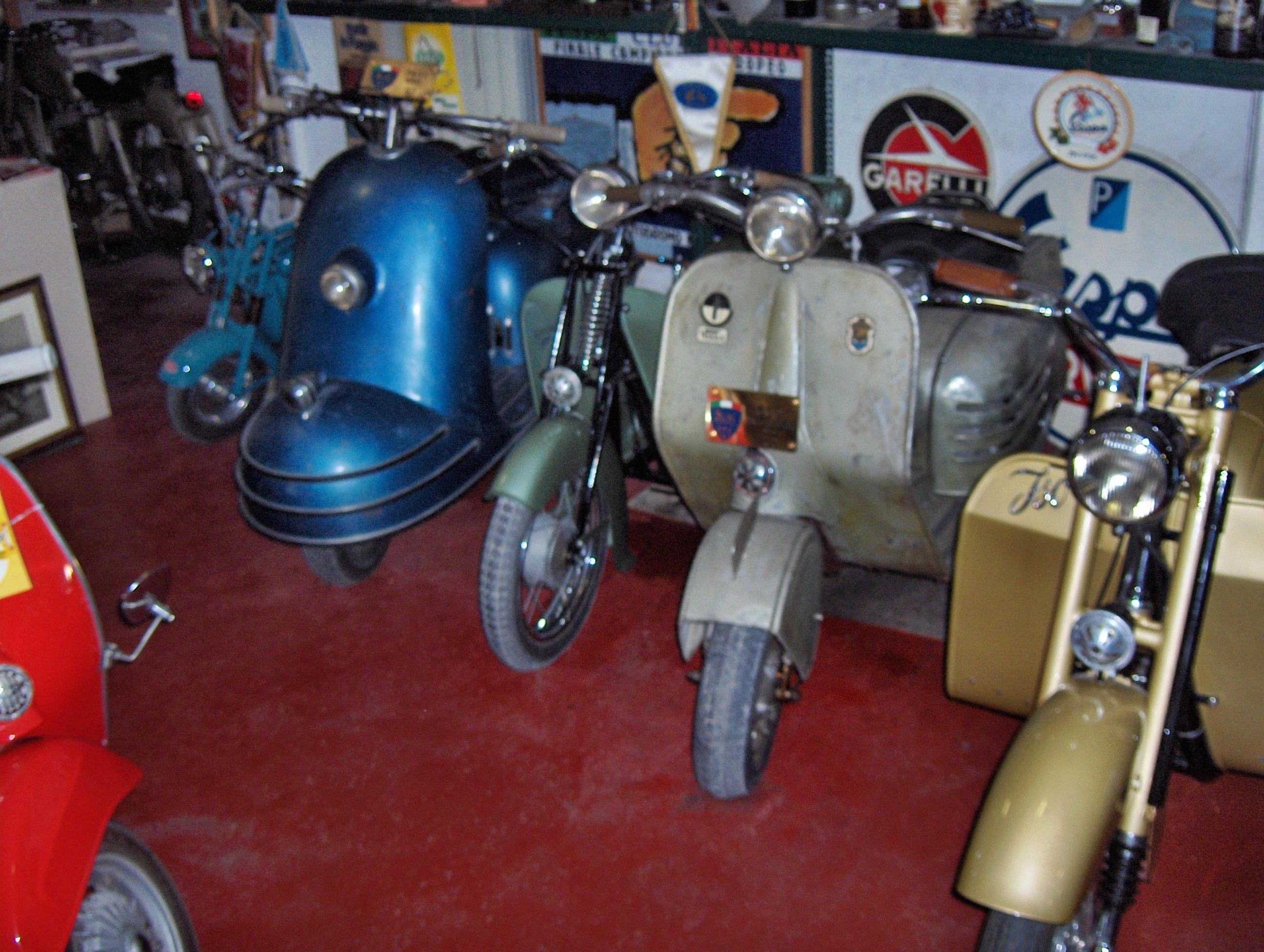 Historic scooters in the private scootermuseum, Assisi, Italy